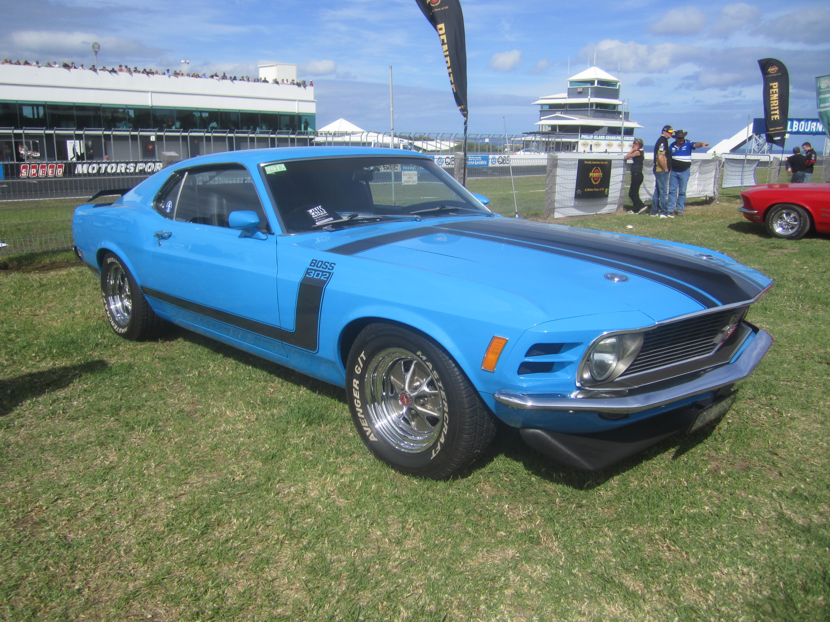 861 made Grabber Blue The 1970 Mustang was a facelift of the 69, the headlights were moved inside the grille and vents added to the front corners, the rear fender scoops were also gone. Available in Sports roof, Hardtop or convertible. The Boss 302 was built to compete in the Trans Am Championship against the likes of the Cuda AAR, TA Challenger and Z28 Camaro. Engine; 290bhp (conservative); G code; 351 Cleveland heads on a Tunnel Port 302 Windsor Block. 7013 made.